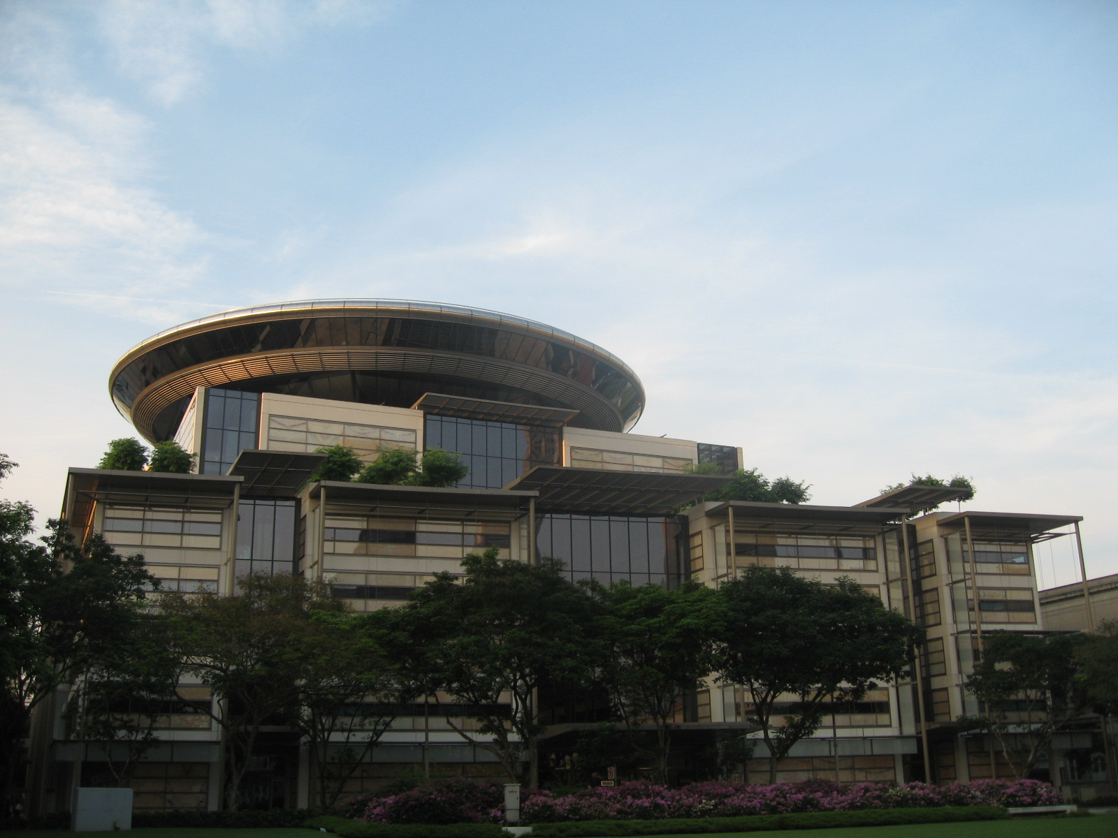 Supreme Court Building, Singapore.